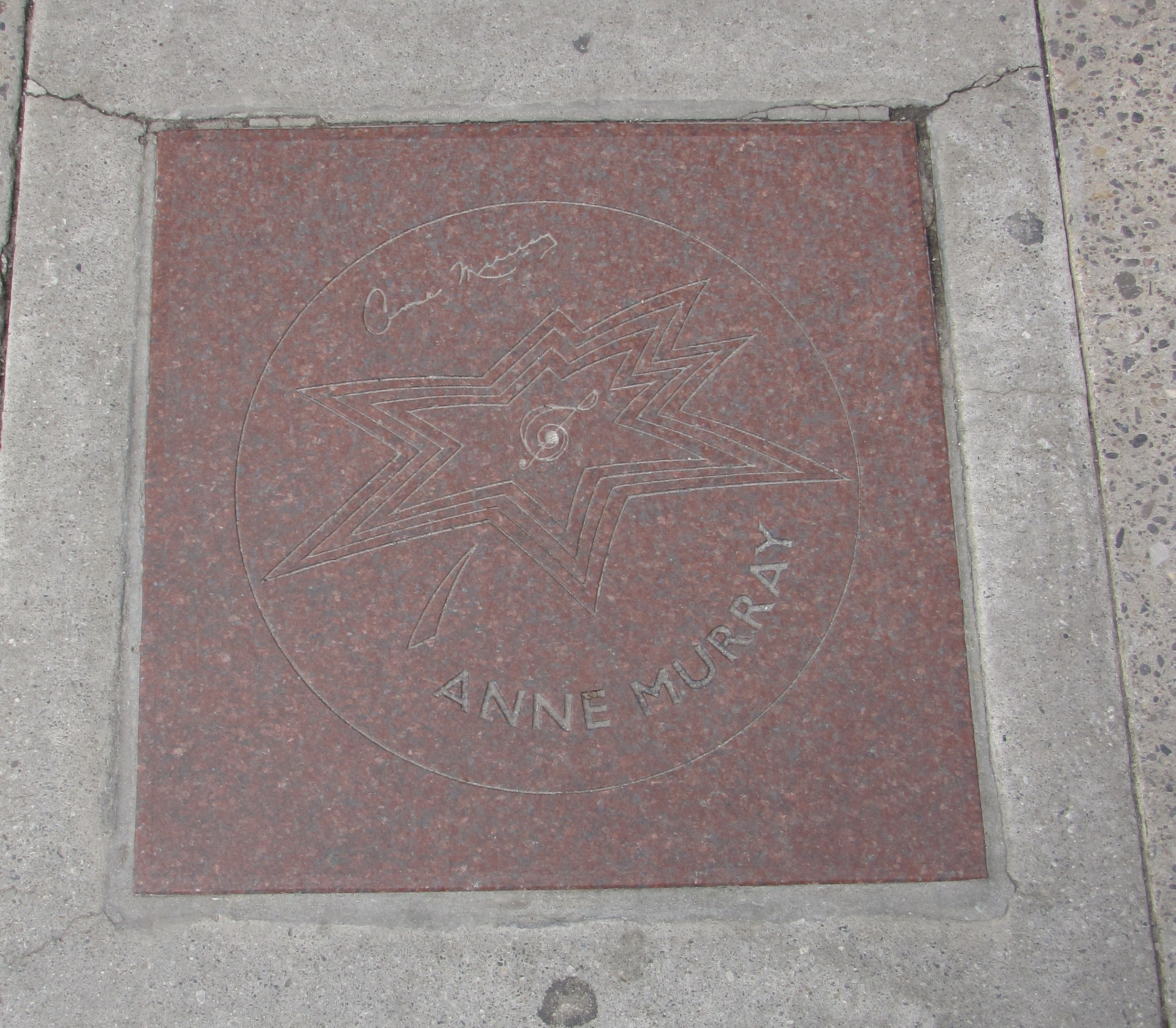 Anne Murray's star on Canada's Walk of Fame